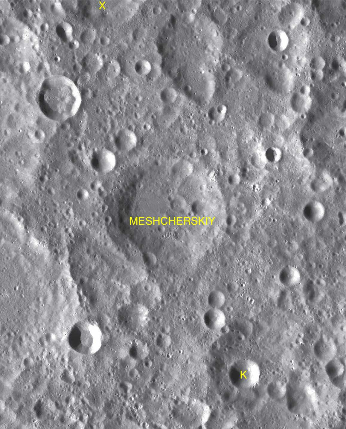 Part of the chart LAC-65 used for the presentation